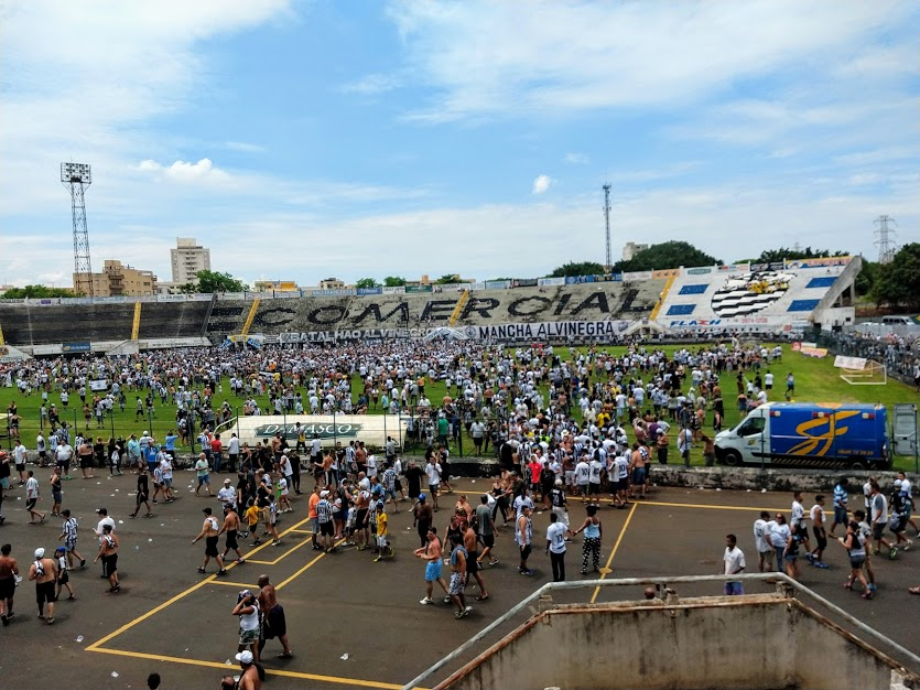 Fan of Comercial Futebol Clube, celebrating the access to Series A3 of the Paulista Championship of Soccer